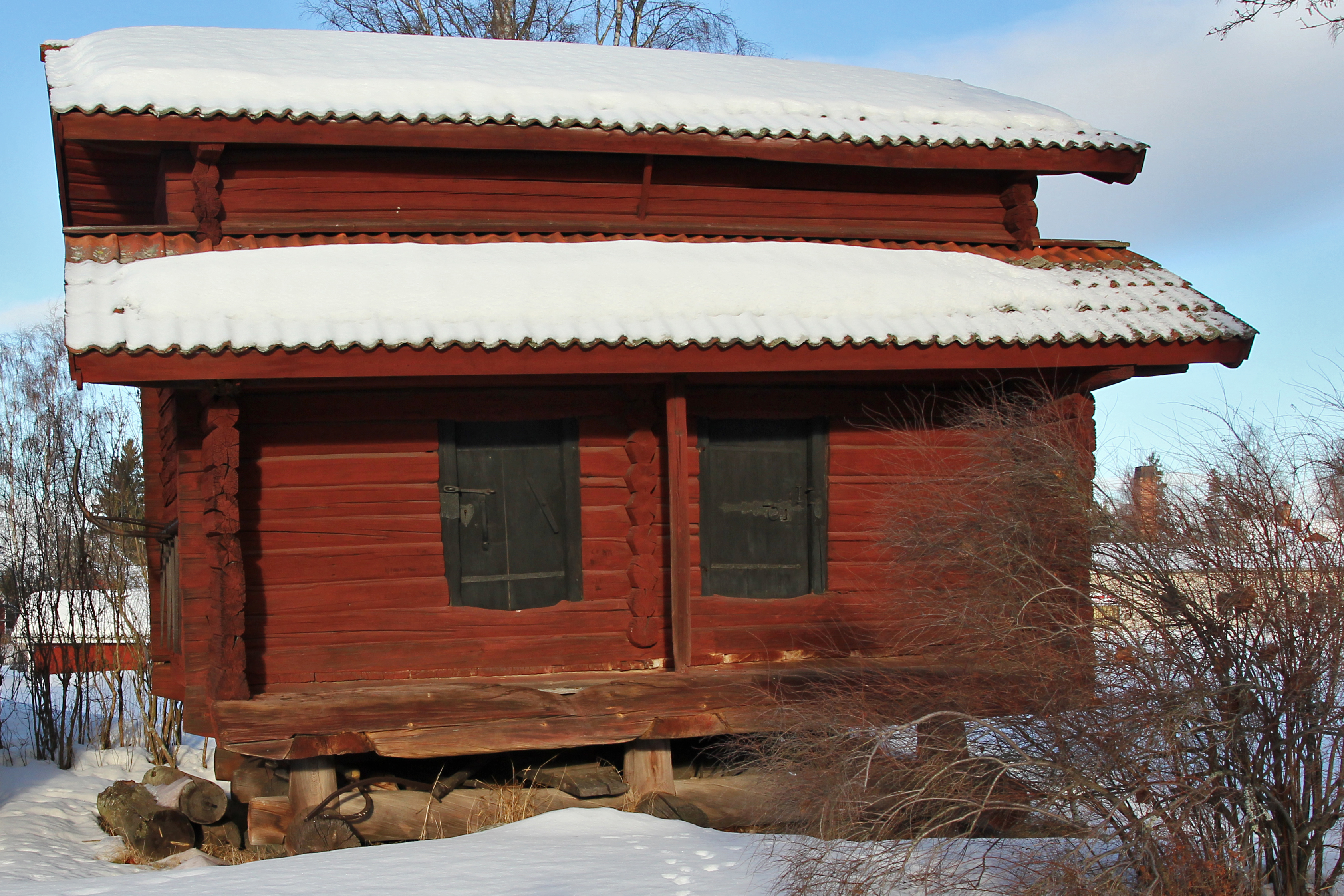 Berg Olles parhärbre, Insjön, Leksand Municipality, Sweden